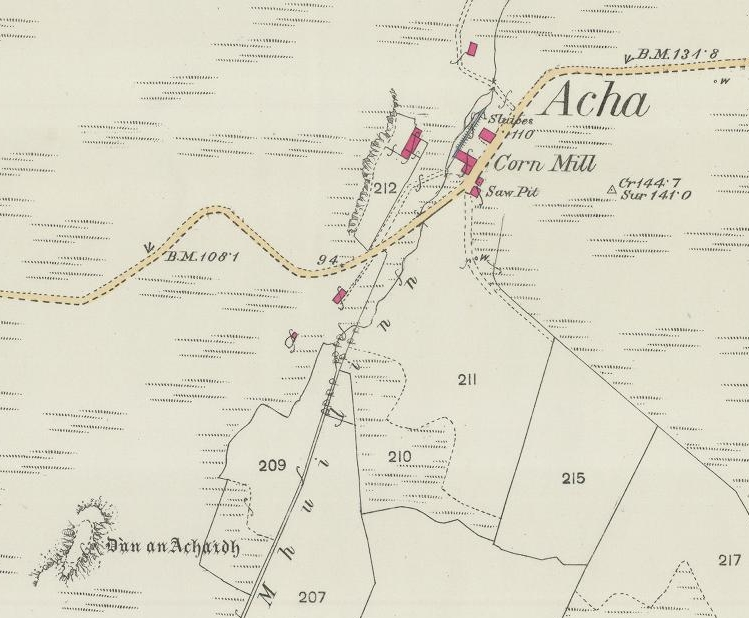 A cropped image of an Ordnance Survey map (Title: Argyll and Bute Sheet L.3 (Coll). Survey date: 1878. Publication date: 1881). This image shows Dùn an Achaidh nearby Acha, on the Inner Hebridean island of Coll.